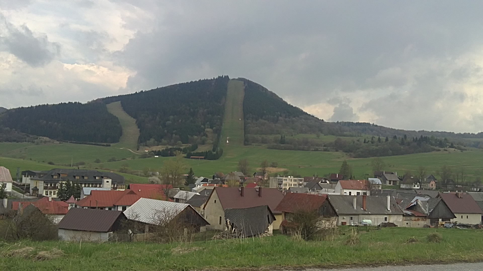 Cicmany - Javorinka